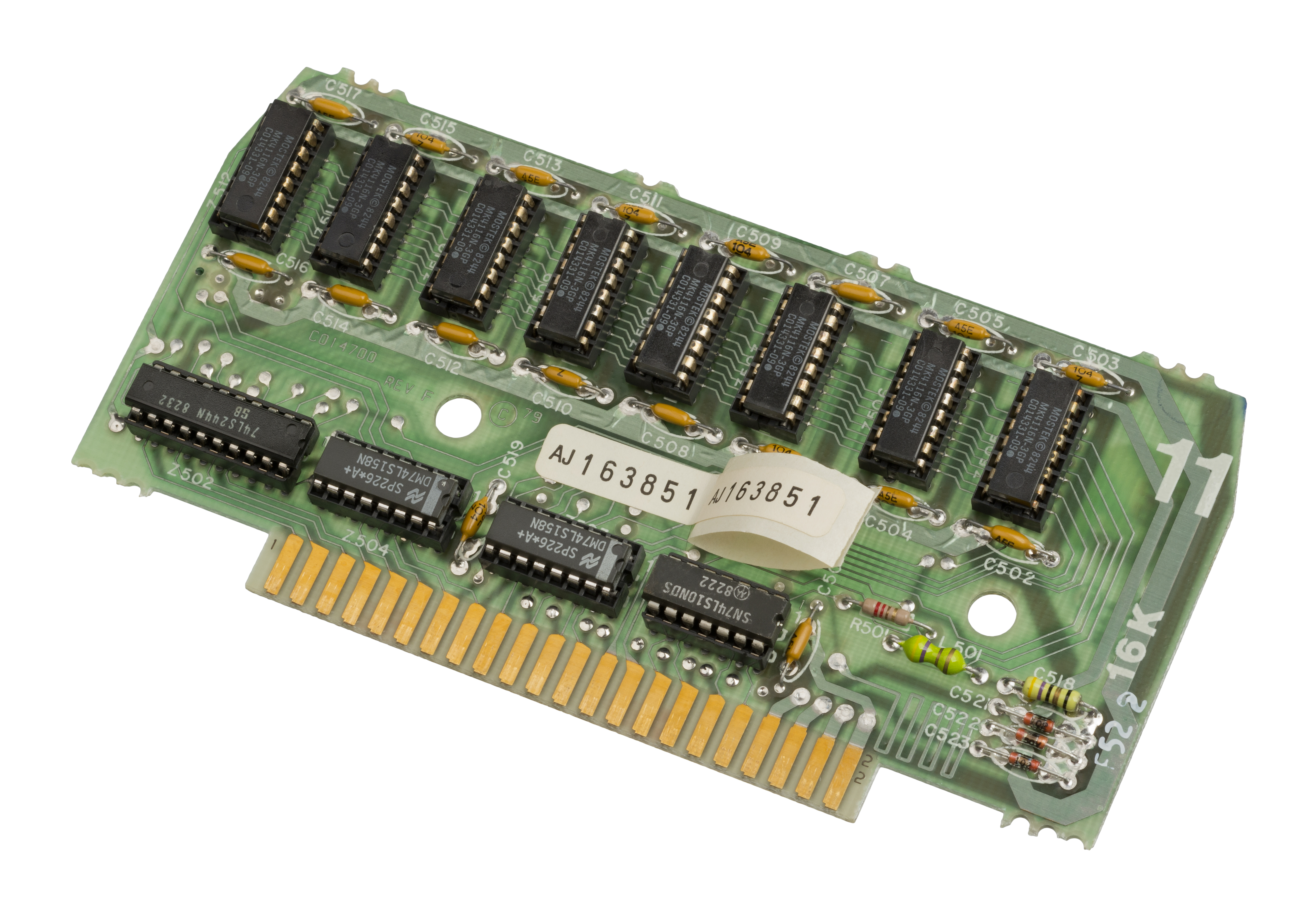 The RAM expansion board for Atari 800, an 8-bit computer released by Atari in 1979. This board contains 16K of RAM. Three boards are usually installed at once to allow the computer to access 48K of RAM.